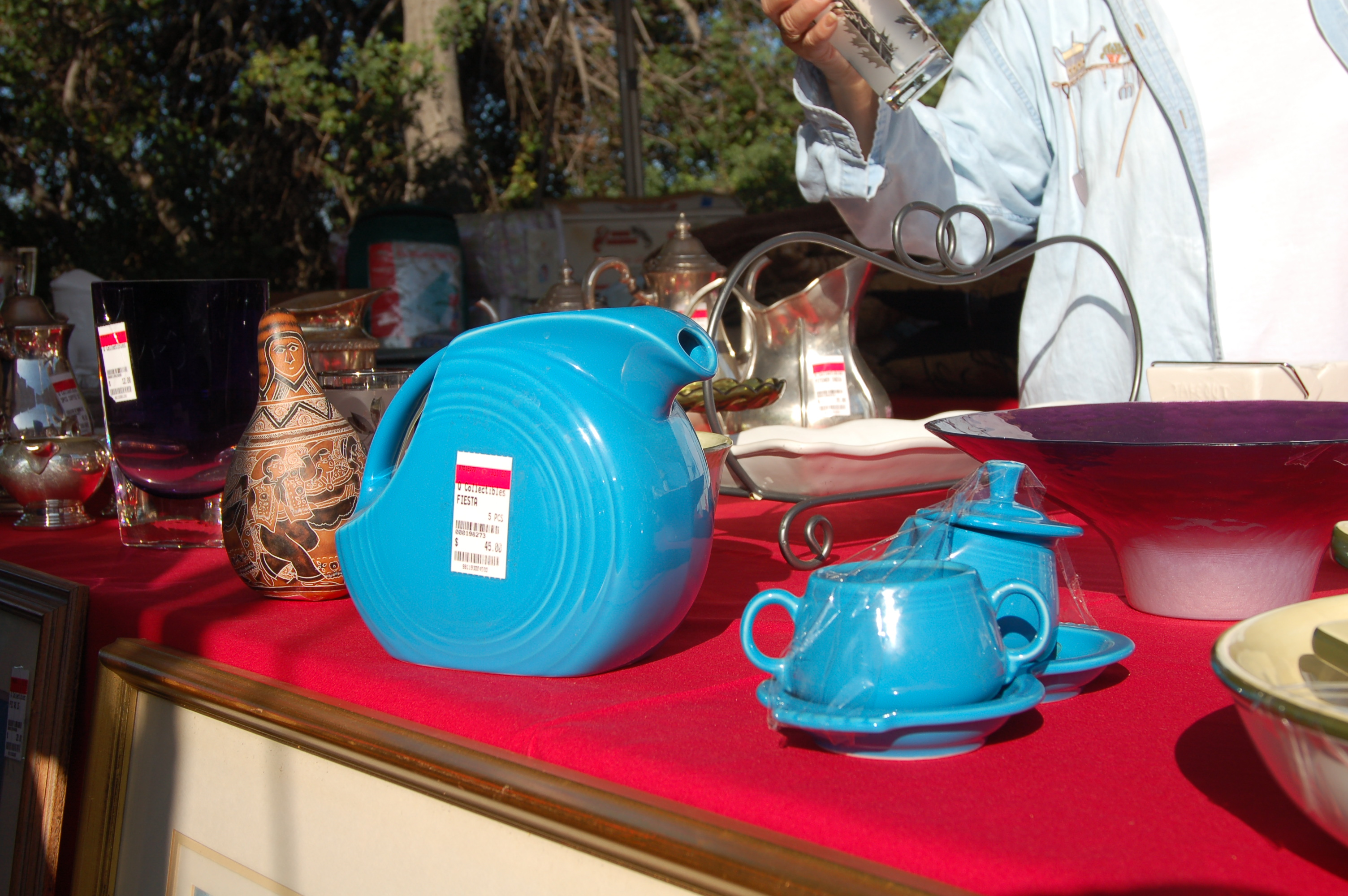 Fiesta ware sold at a charity fundraiser